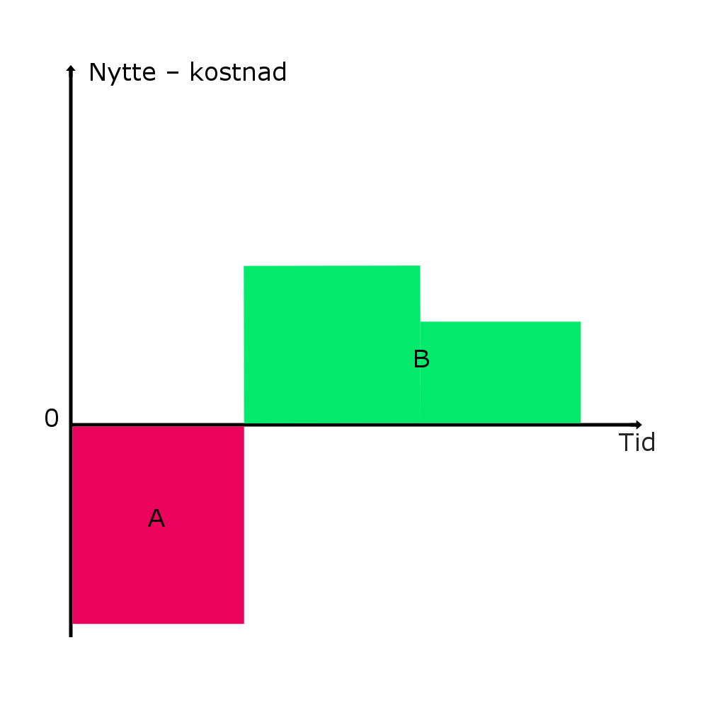 Costs and benefits over time in a cost-benefit analysis (Norwegian).